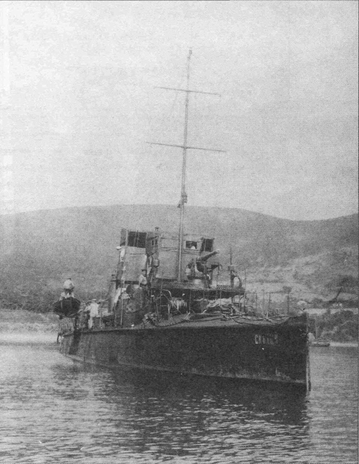 The Imperial Russian torpedo boat Smelyi after Russo-Japanese war.